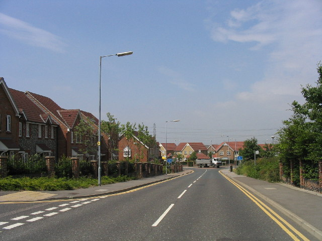 Chafford Hundred, Thurrock, Essex. New housing estate built on site of an old quarry